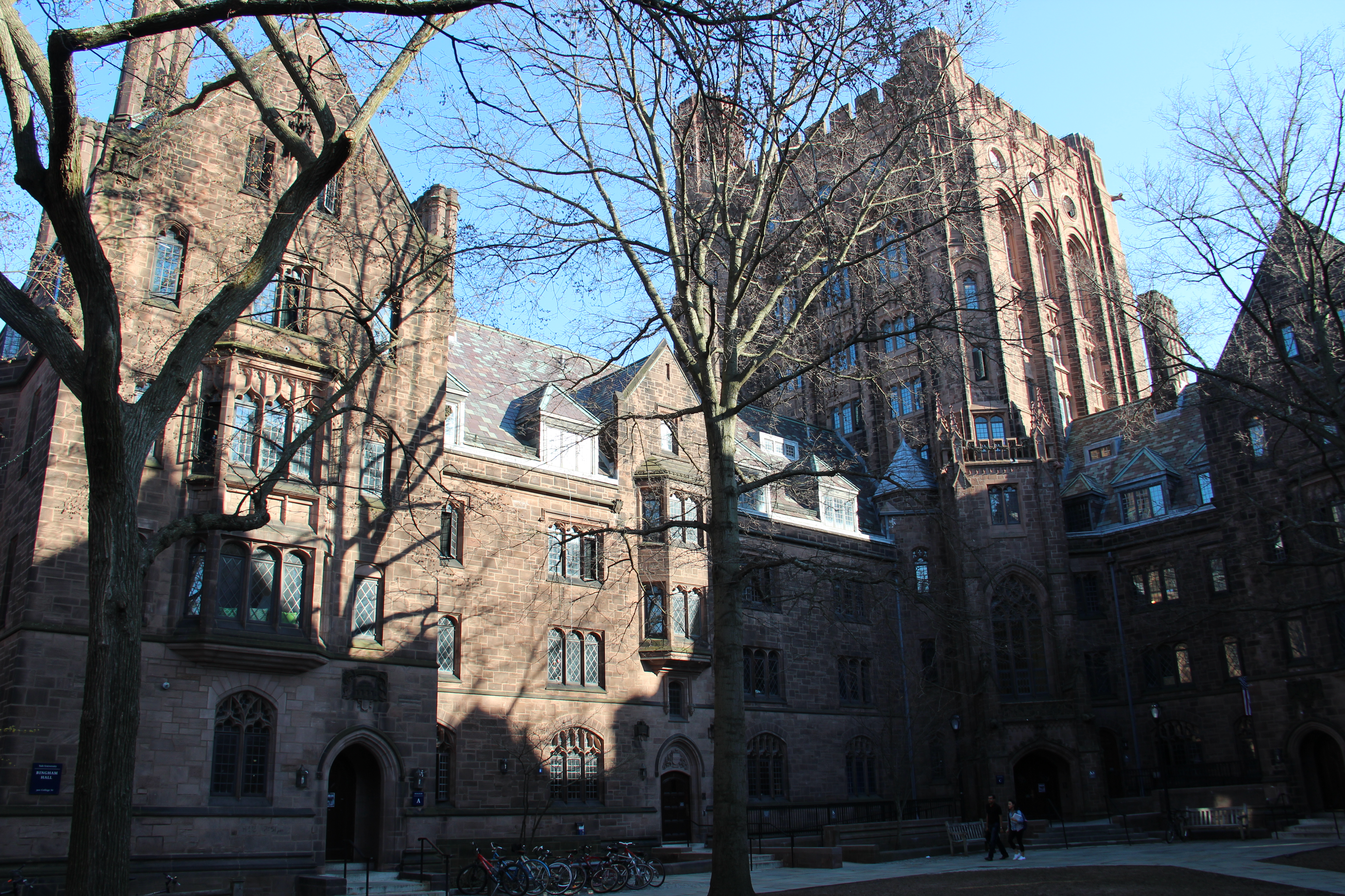 Bingham Hall from Old Campus courtyard cast in late afternoon shadows, Yale University, New Haven, CT